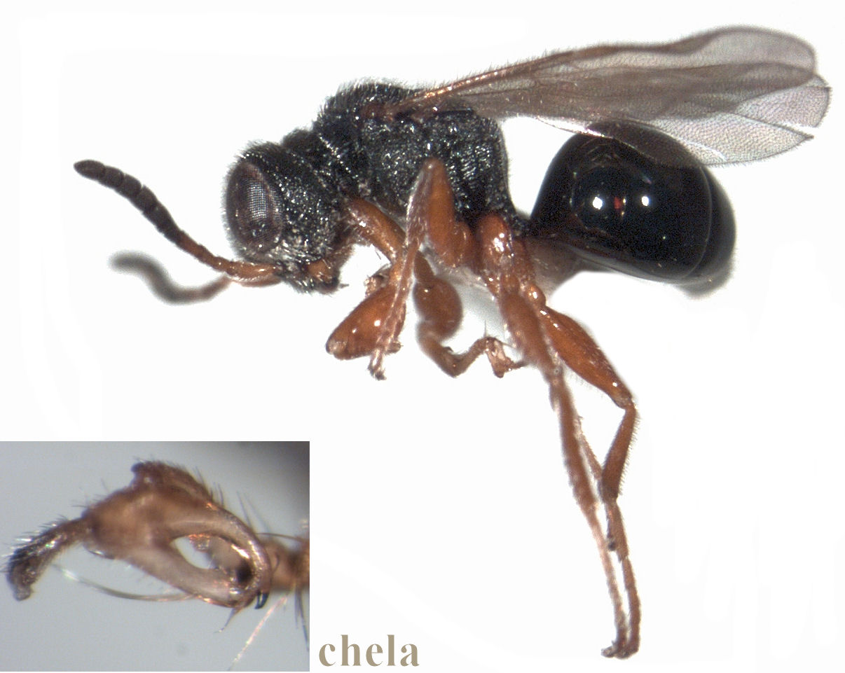 adult female Bocchus thorpei (lateral and chela)